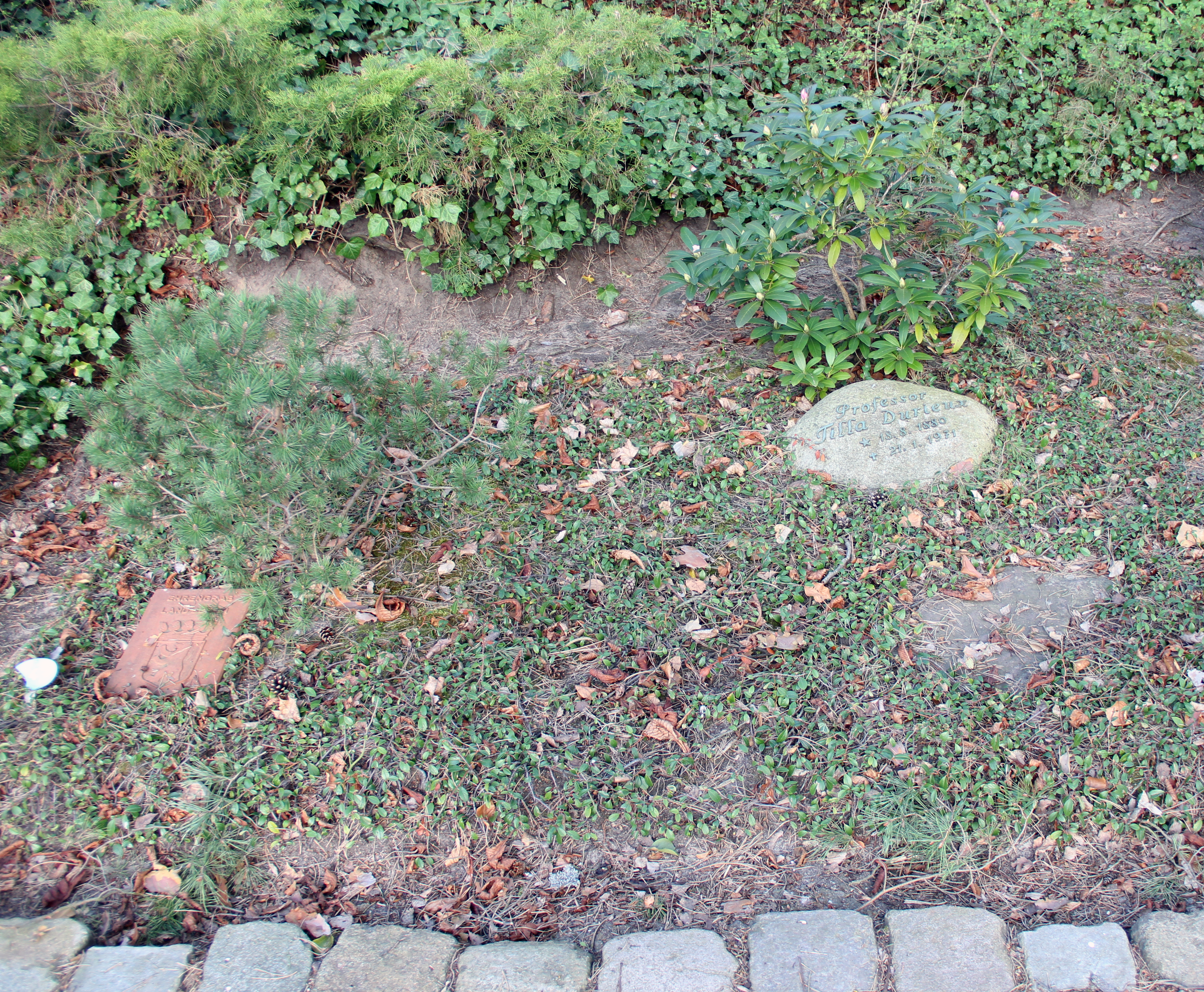 Grave of honor, Tilla Durieux, Trakehner Allee 1, Berlin-Westend, Germany